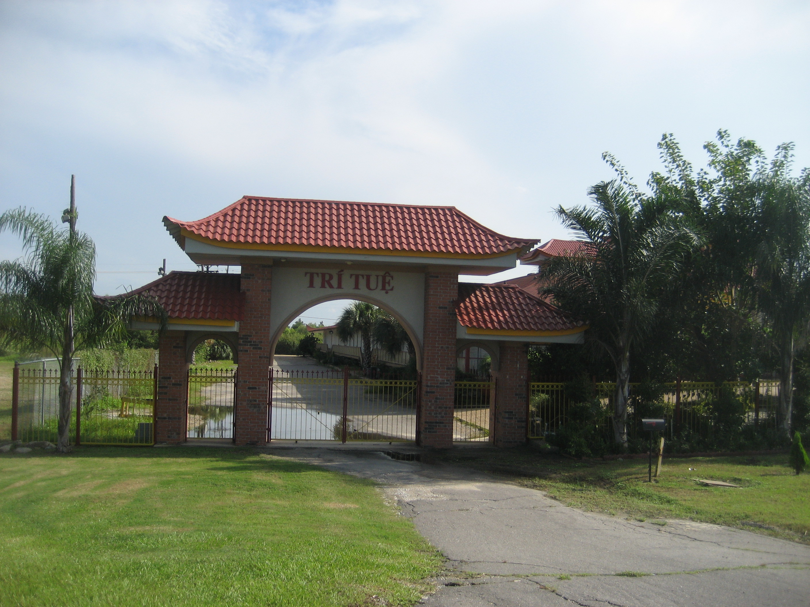 "Little Vietnam" section of New Orleans.